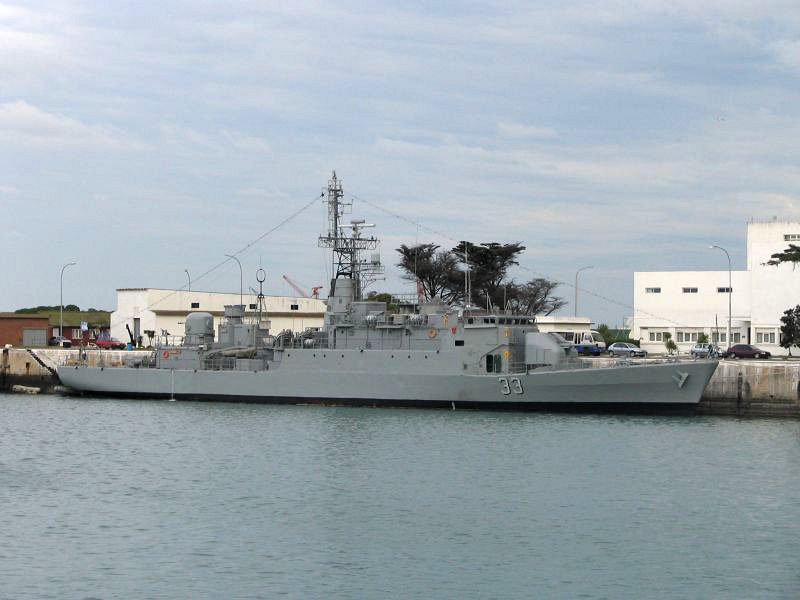 Misilistic Corvette A-69 Class, (P-33) ARA "Granville" Martín Otero Near Base Naval Mar del Plata July, 2005